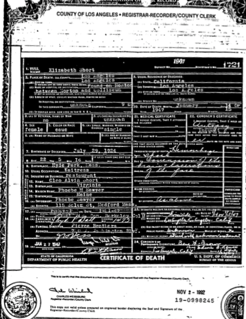 Copy of Elizabeth Short's death certificate, Los Angeles County